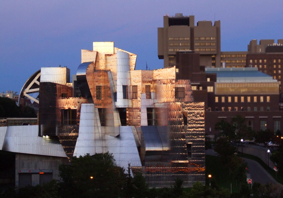 University of Minnesota Weisman Art Museum, Coffman Memorial Union and University of Minnesota Medical Center, Minneapolis, Minnesota